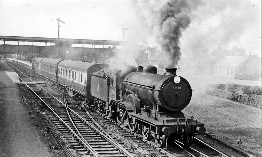 Peterborough East to Cambridge stopping train leaving March. View westward, towards Peterborough and - to right beyond the station - northward to Whitemoor Yard, Spalding/Lincoln/Doncaster/Boston/Grimsby etc. March was an immensely busy junction of important main lines, especially for freight to/from Whitemoor. The train, headed for Cambridge via Ely, has D16/3 'Super Claud' 4-4-0 No. 62530.